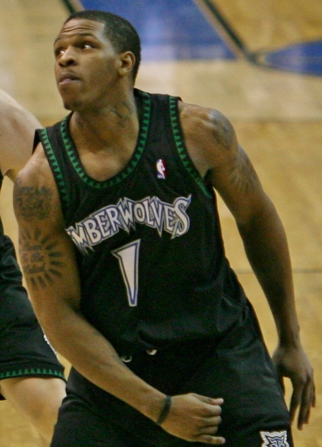 Rashad McCants of the Minnesota Timberwolves on the court in a game vs the Washington Wizards.